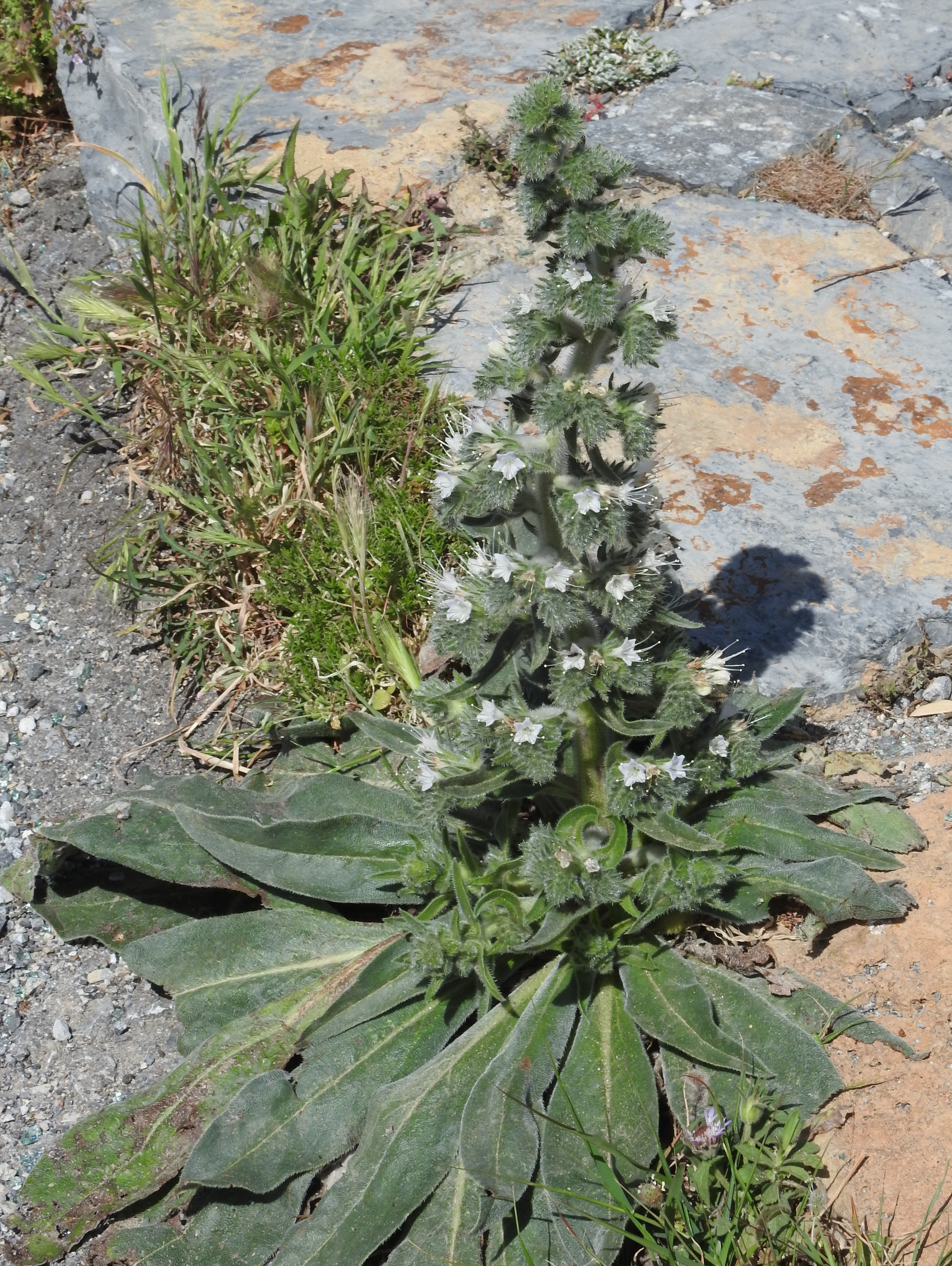 Italian viper's bugloss (Echium italicum subsp. biebersteinii) at the slope above Preveli beach, Crete, Greece